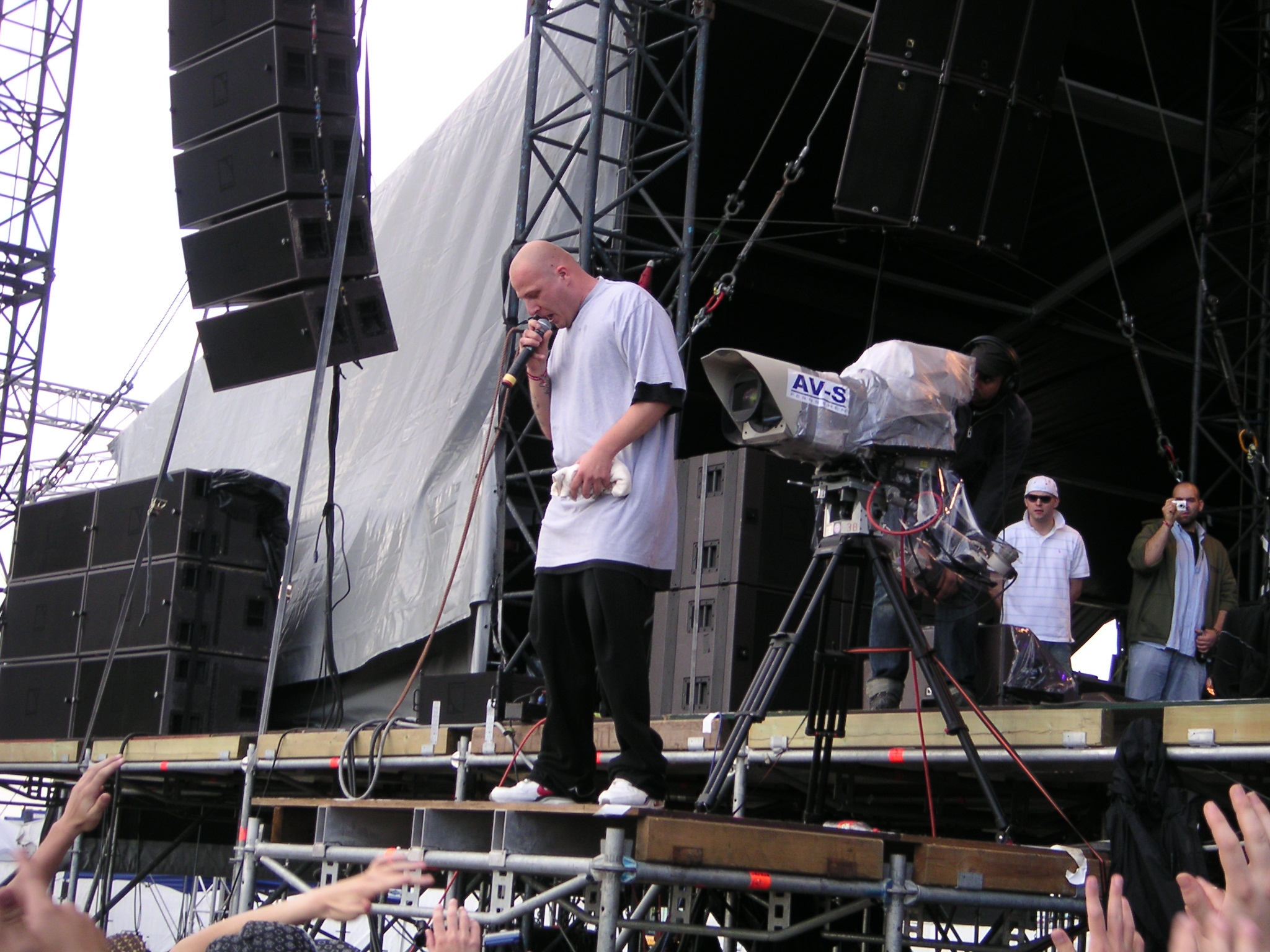 The German rapper Pal One at the Splash! festival in 2007